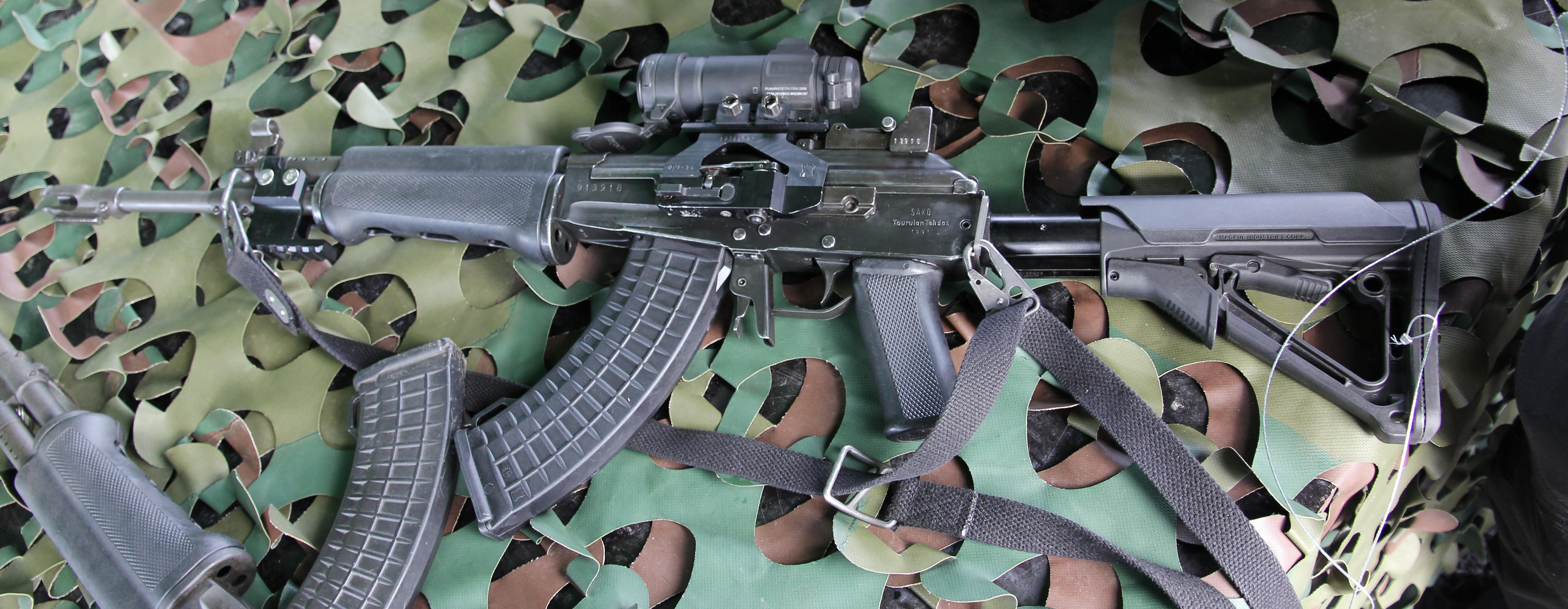 Finnish modernized 7,62 RK 62M assault rifle on display at Comprehensive security exhibition 2015 in Tampere. Modifications include telescoping stock and picatinny rails, currently mounting a red dot sight.